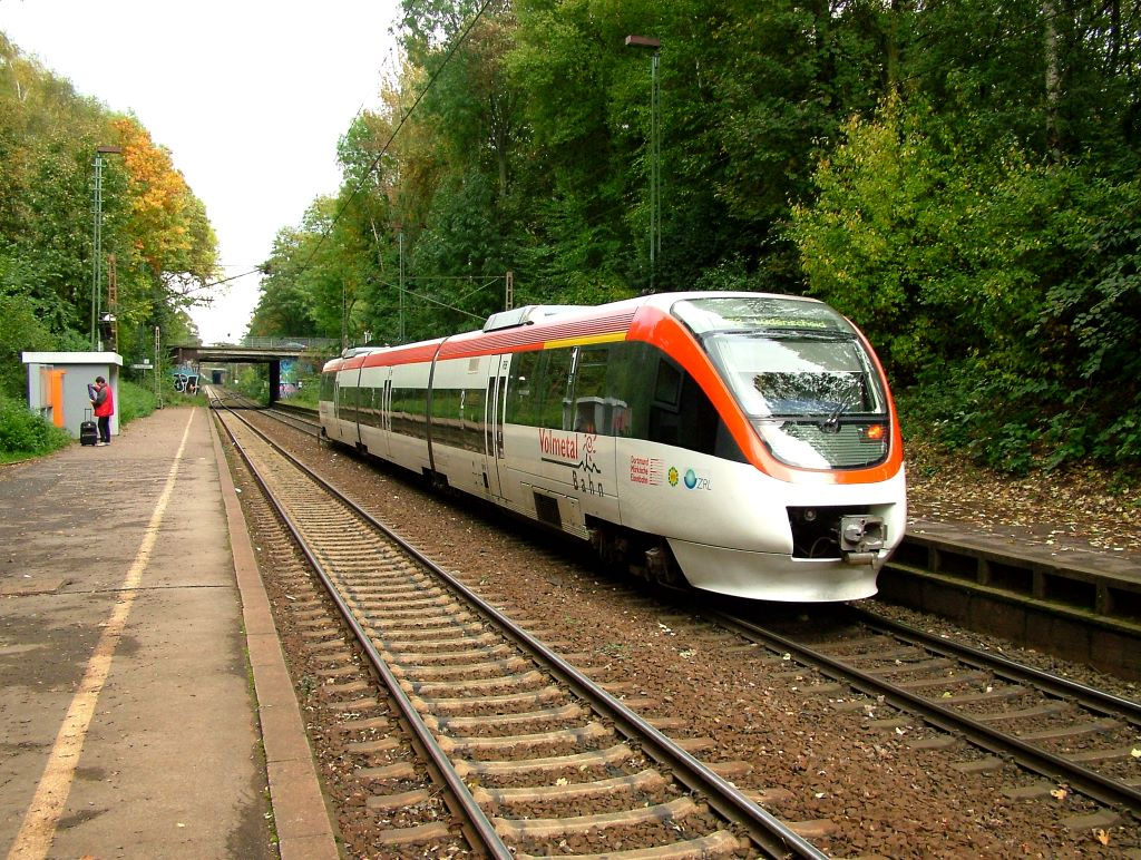 A train of the Dortmund-Maerkische Eisenbahn stopping at Dortmund Westfalenhalle before the station was refurbished